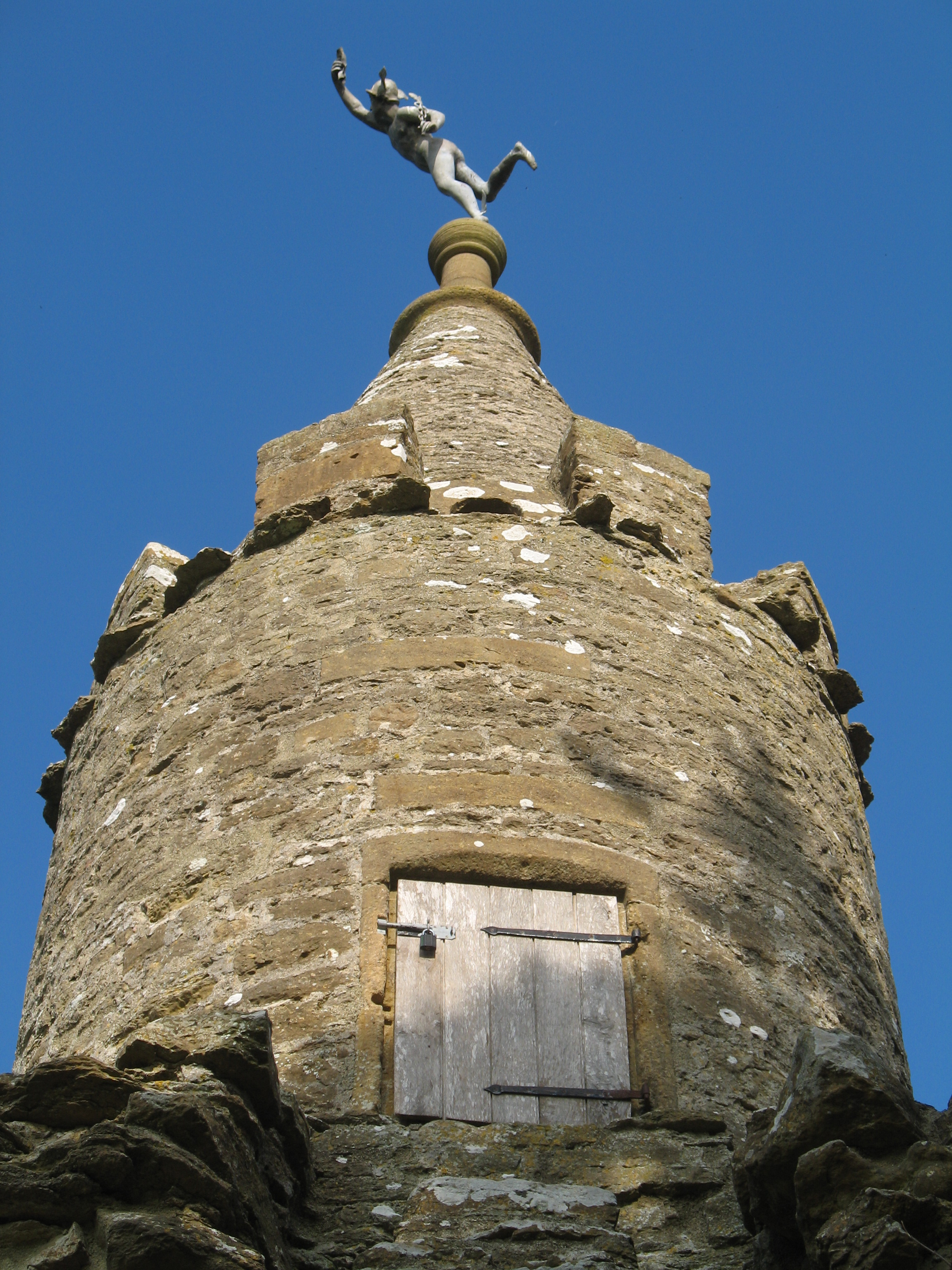 Jack the Treacle Eater, one of the follies at Barwick Park, near Yeovil, Somerset, England